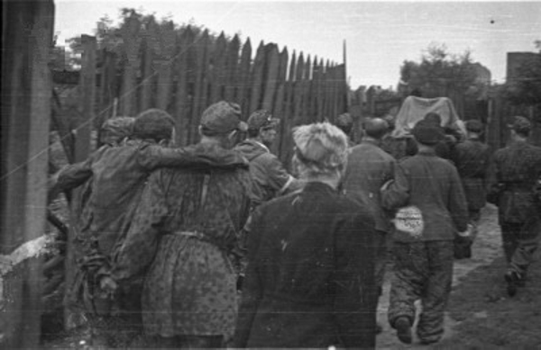 WarsawUprising: Retreat and evacuation of wounded of "Pięść" Battalion from area of Evangelical cemetery to Warsaw Old Town.